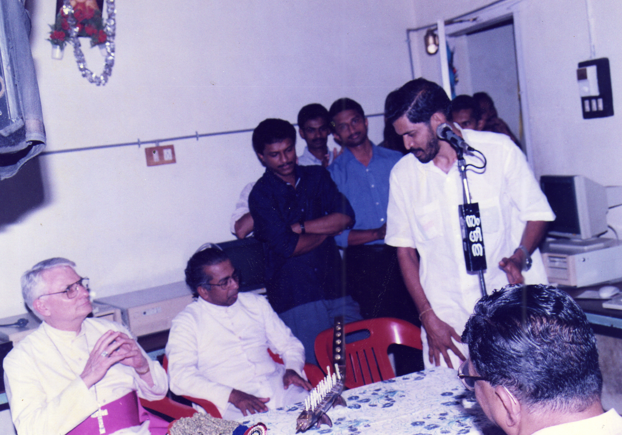 Thomas Kallampally at St Antonys College function delivering presidential address